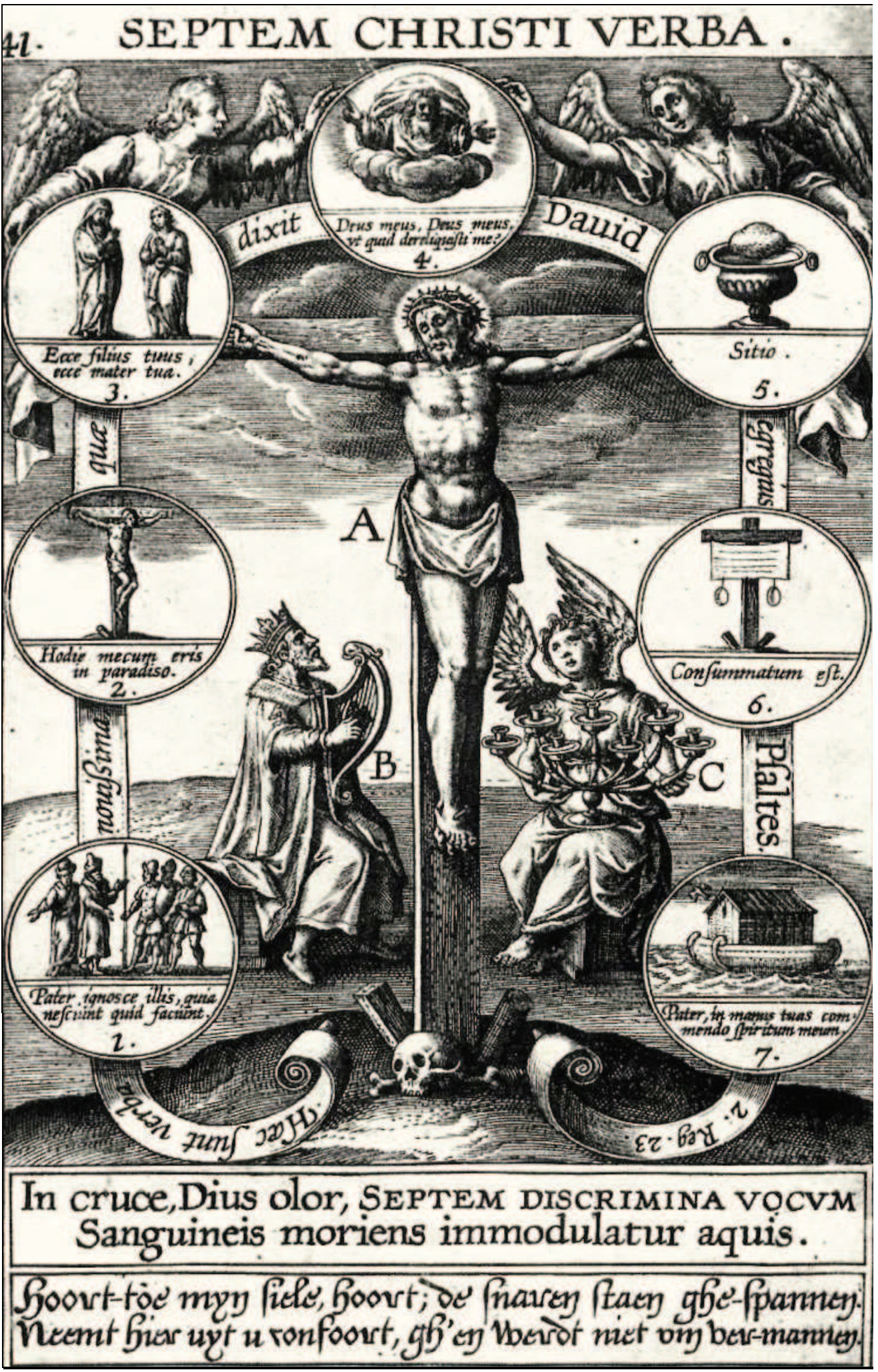 Seven last words of Christ, illustration, Netherlands, 17th century